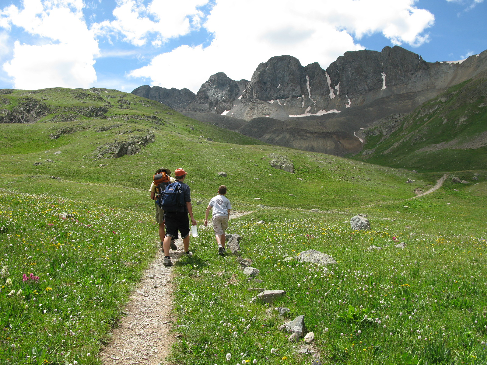 7+ mile (roundtrip) family hike to the top of Handies Peak, Colorado, in the American Basin area. Saw carpets of wildflowers and breathtaking views.